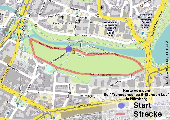 Map of the "Sri Chinmoy 6-Hour race" in Nuremberg, Germany.